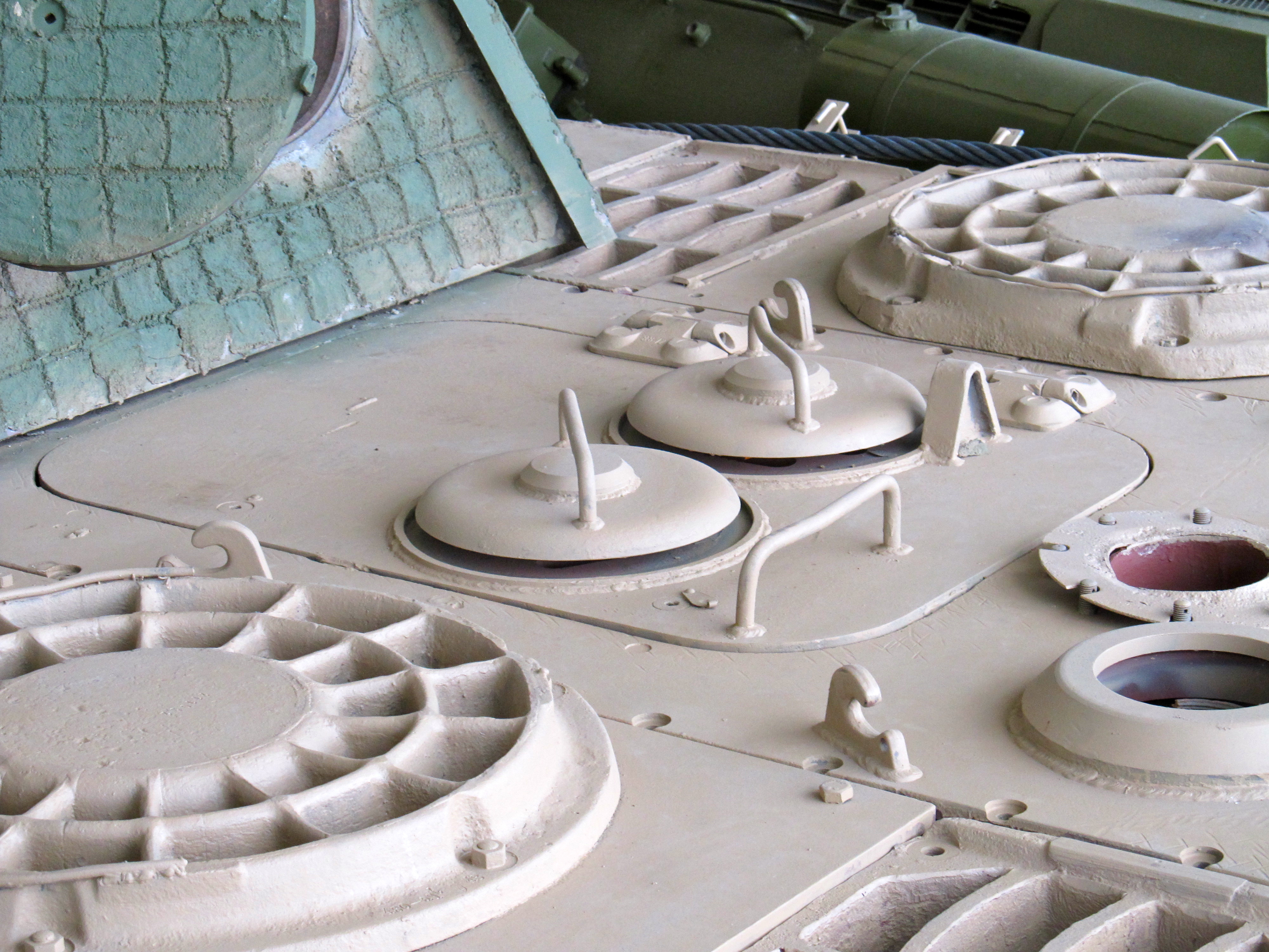 Panther tank in Canadian War Museum, Ottawa.